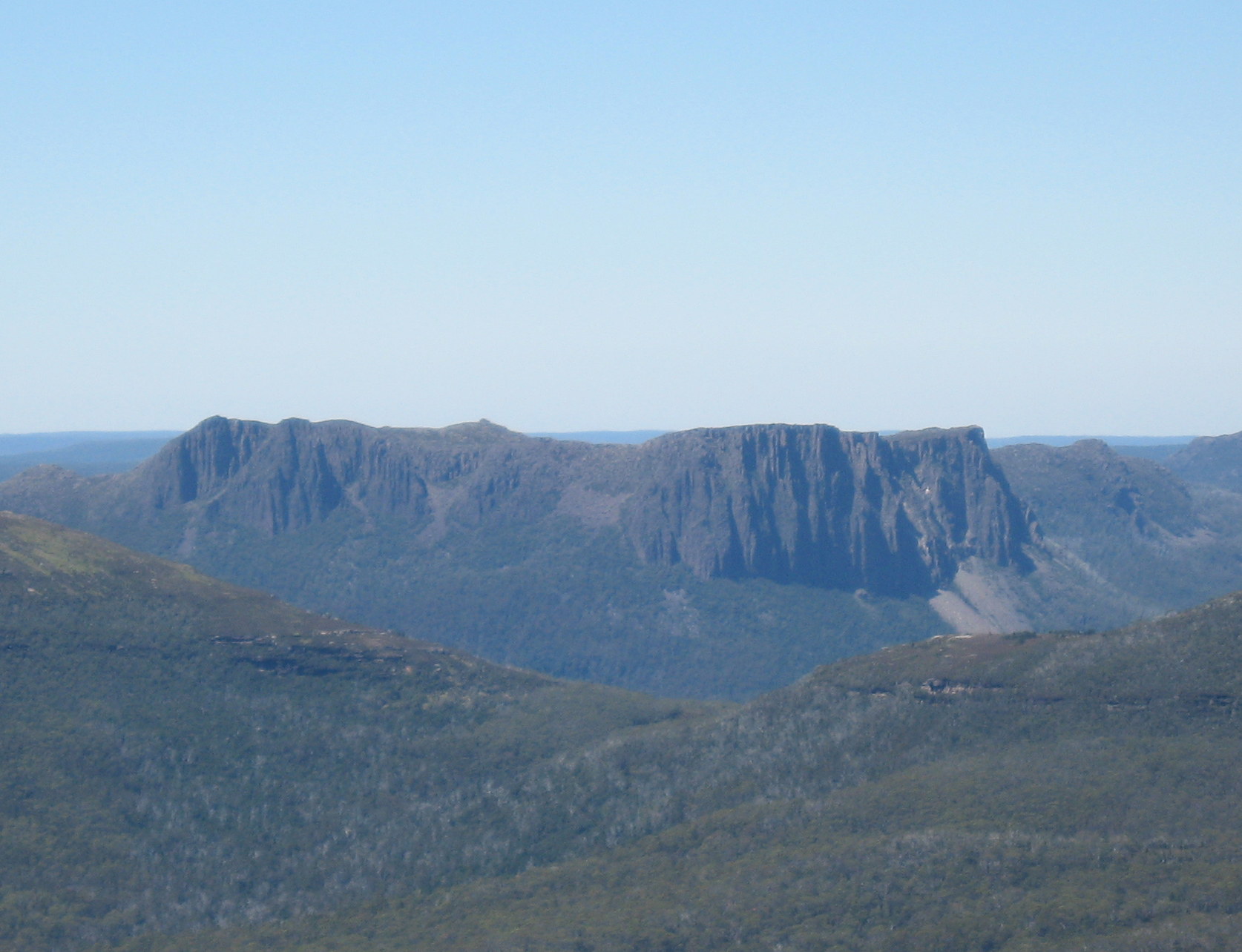 Cathedral Mountain from Mount Pelion West